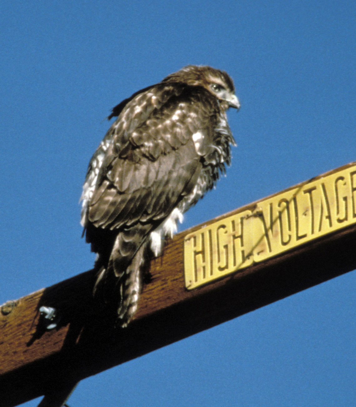 Rough-legged Hawk Buteo lagopus sanctijohannis, Bosque del Apache NWR, New Mexico, USA